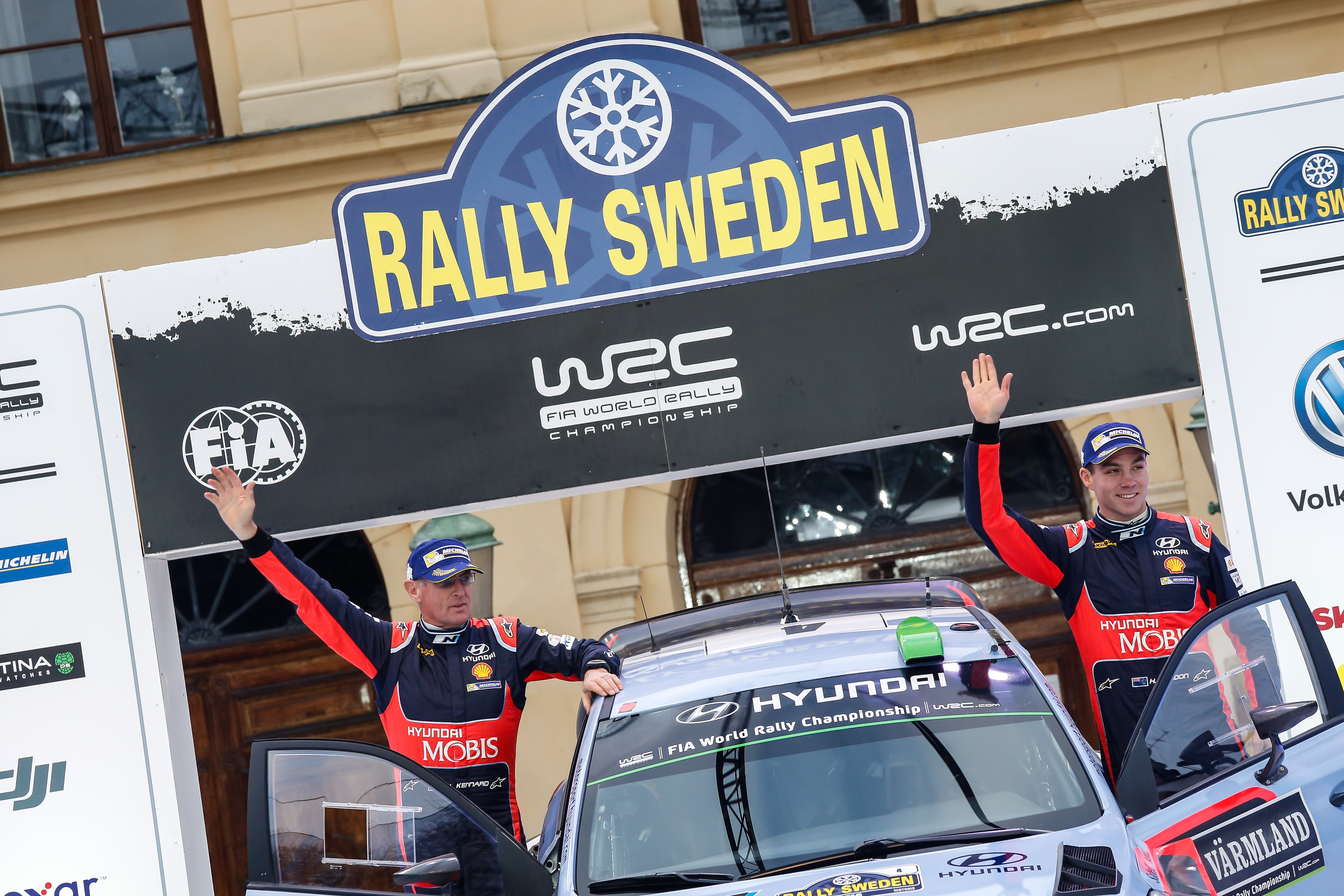 Hayden Paddon (right) and co-driver John Kennard celebrate second place in the 2016 Rally Sweden.